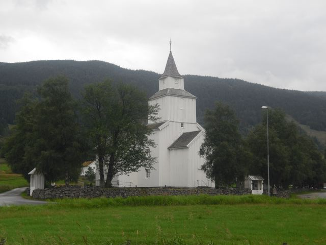 Valle kirke in the municipality of Valle, Aust-Agder, Norway